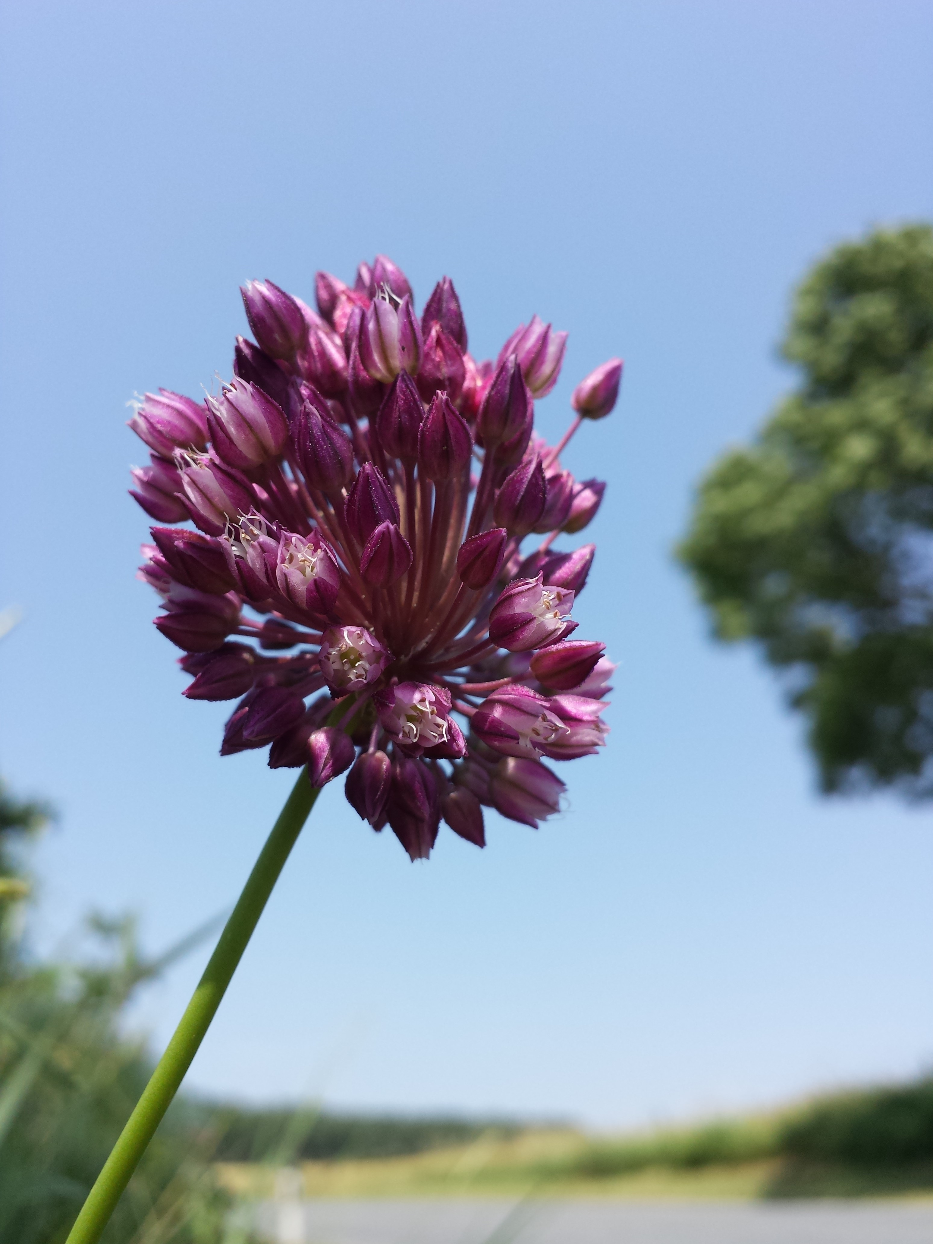 Inflorescence Taxonym: Allium rotundum ss Fischer et al. EfÖLS 2008 ISBN 978-3-85474-187-9 Location: next to Obergänserndorf, district Korneuburg, Lower Austria - ca. 250 m a.s.l. Habitat: roadside